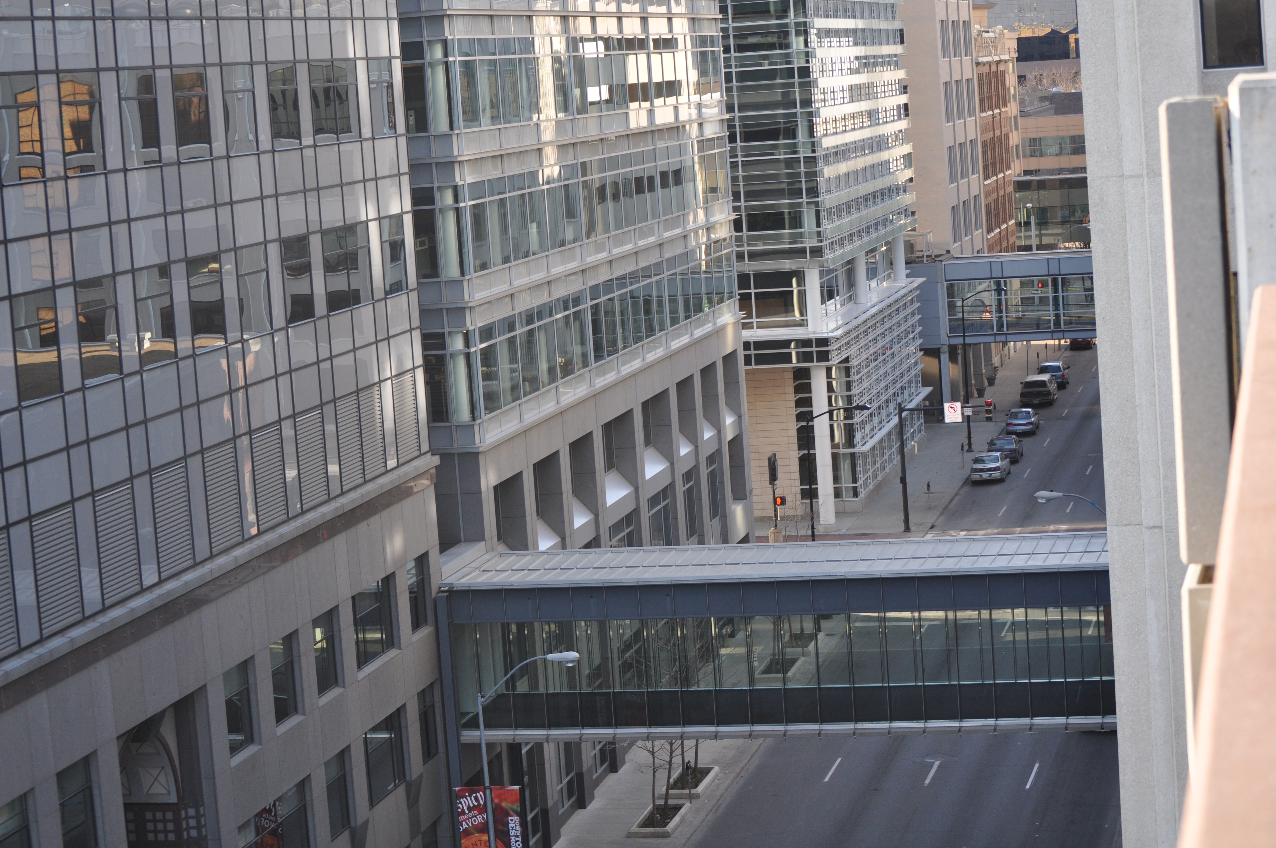 A view of 8th Street in Downtown Des Moines